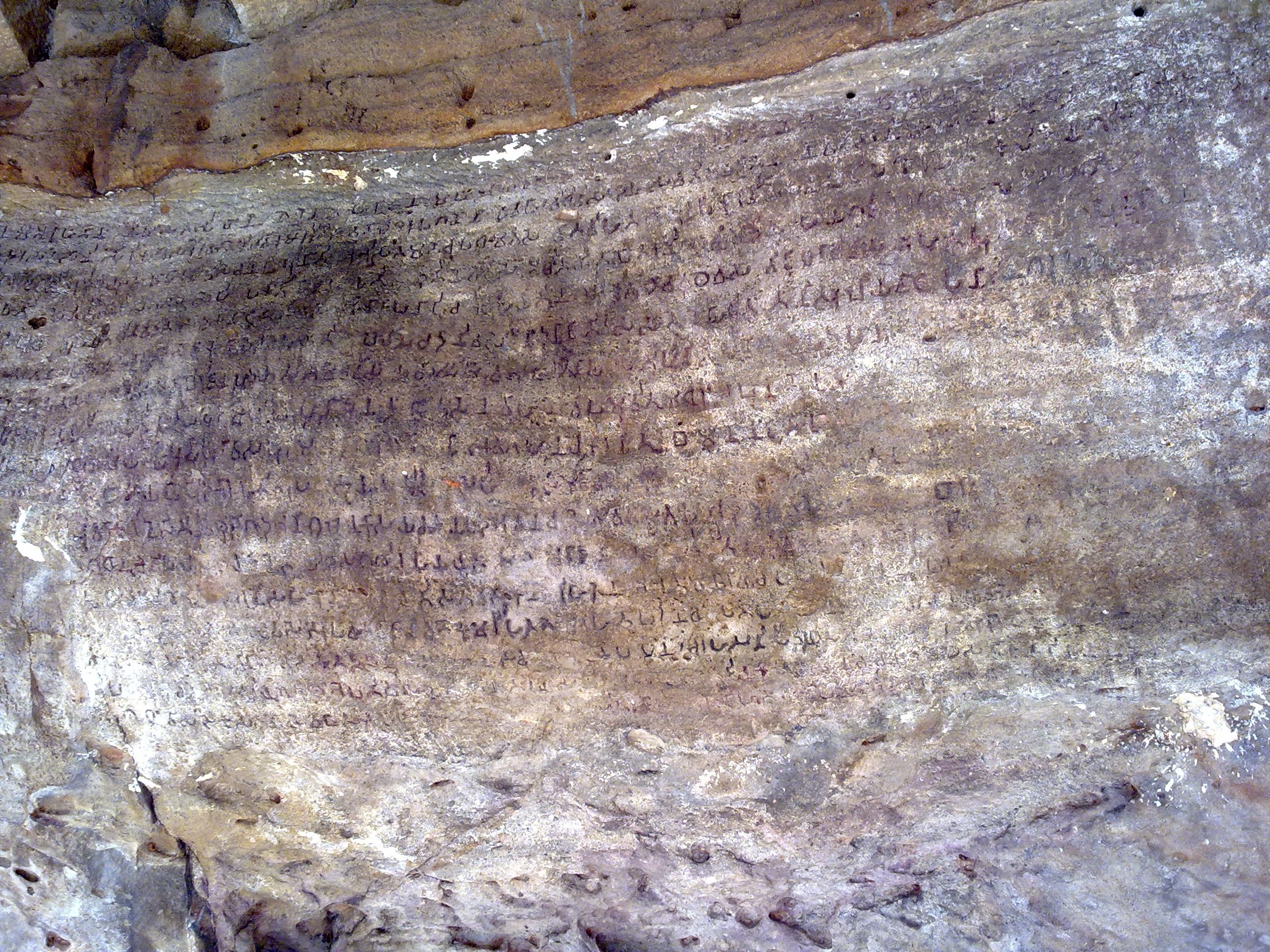 This picture depicting KHANDAGIRI AND UDAYGIRI Cave Inscriptions.